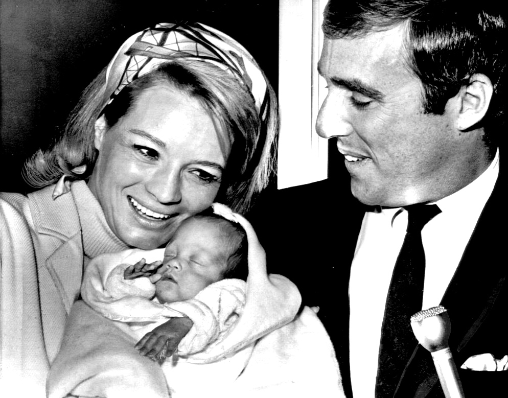 Candid photo of Angie Dickinson and husband-composer Burt Bacharach with their new baby.